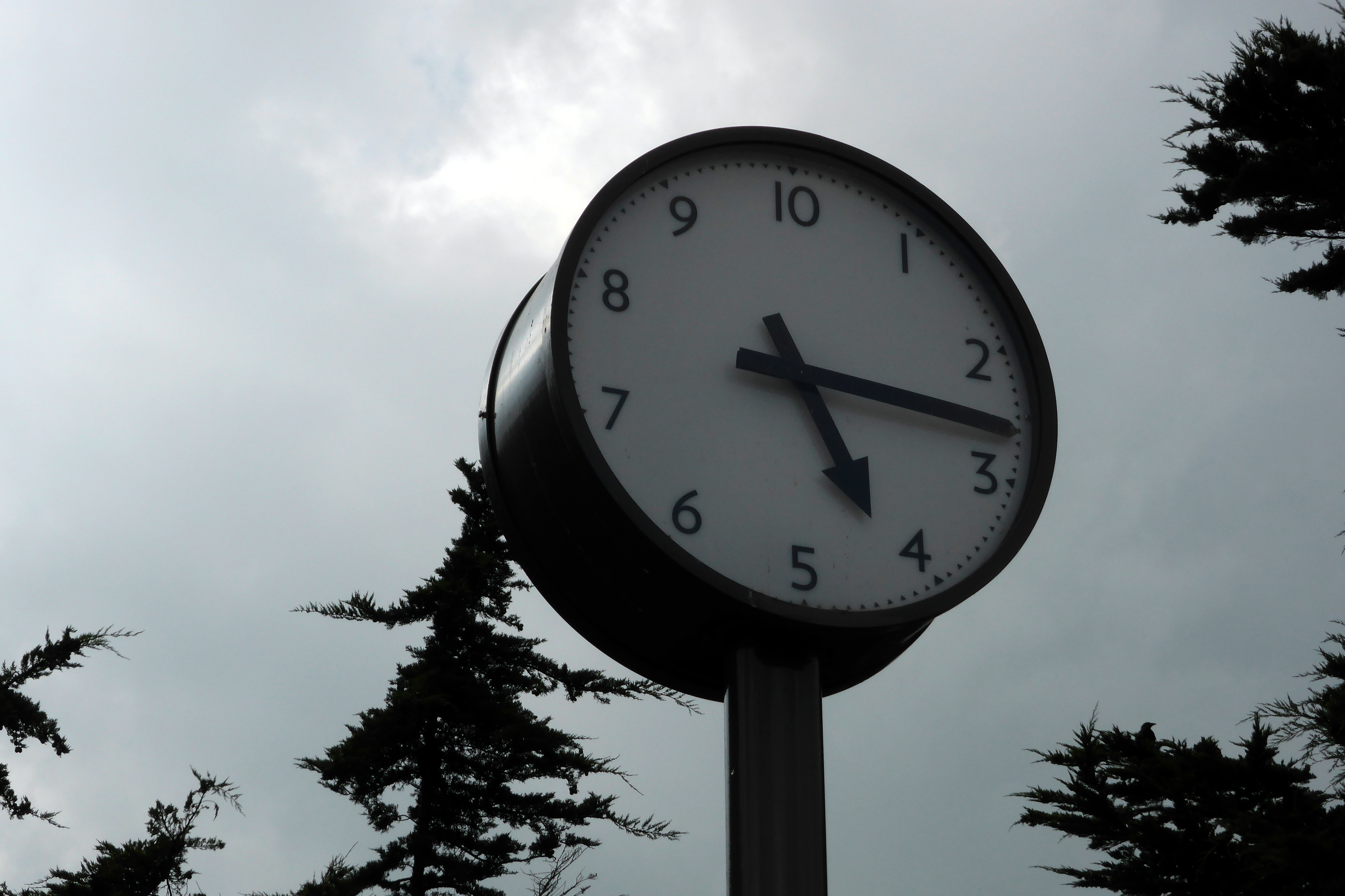 A 10 hour clock